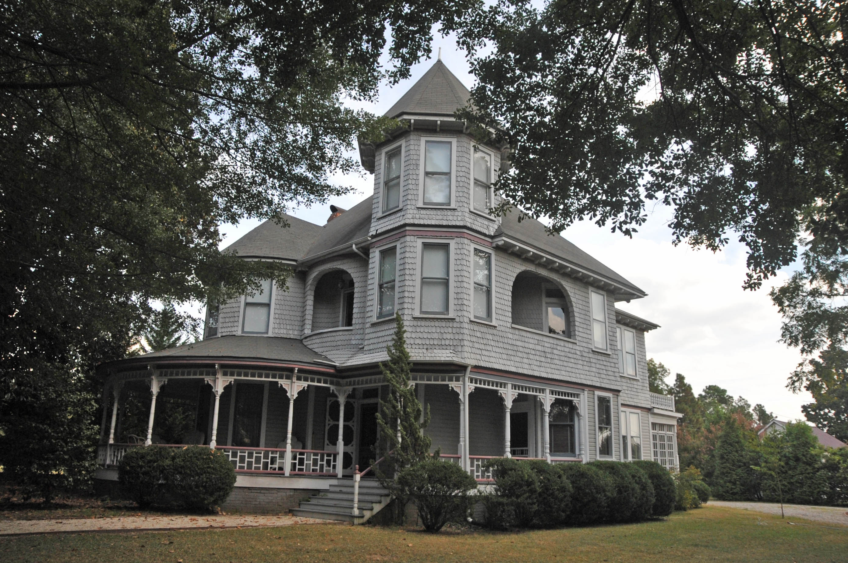 1893 VICTORIAN QUEEN ANNE